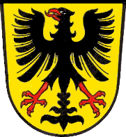 Coat of Arms of Westhofen